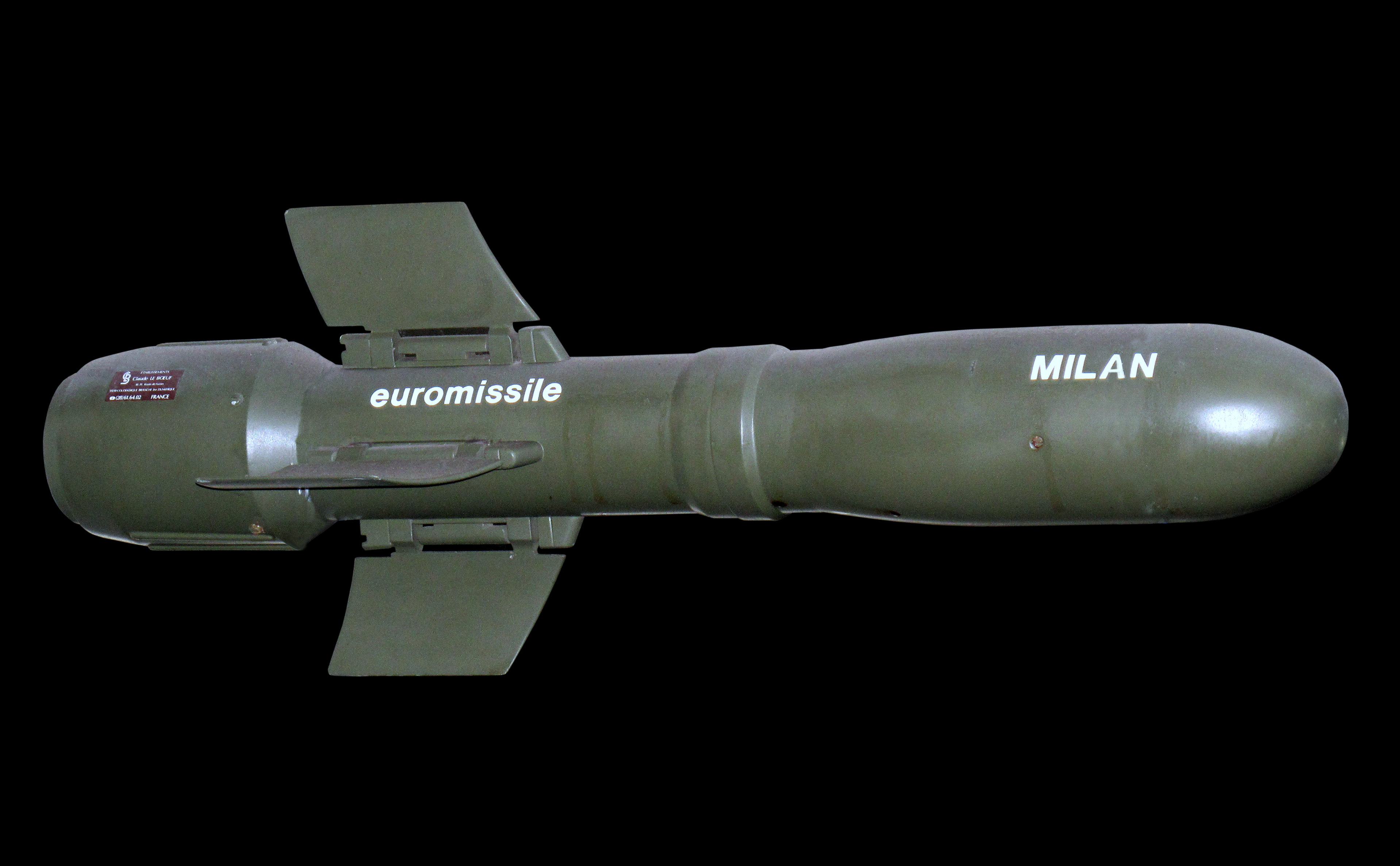 MILAN. On display at Saumur Général Estienne museum.